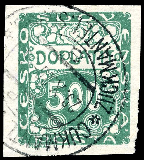 First postage due stamp of Czechoslovakia, 500 haleru, 1918